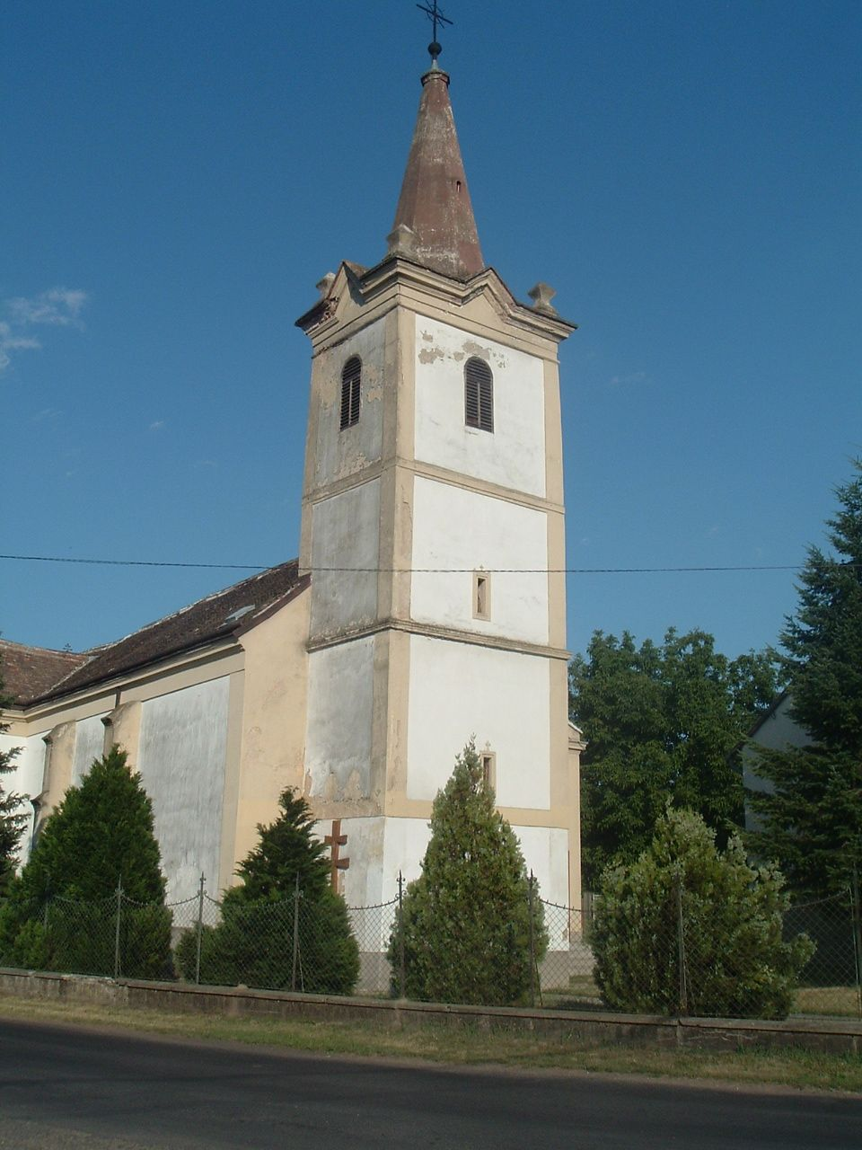 Roman Catholic Church, Újkér This is a photo of a monument in Hungary, Identifier: 5164